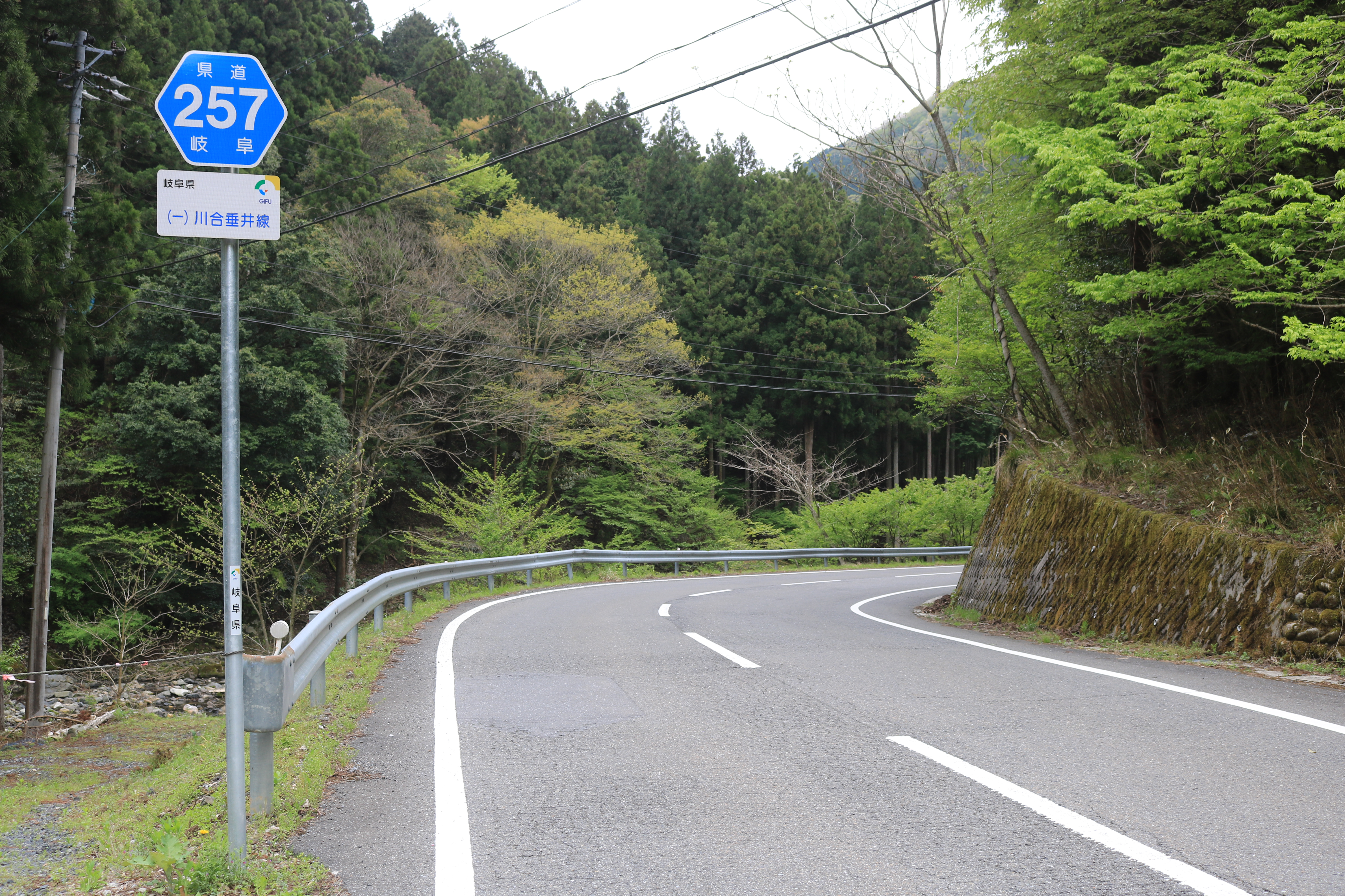 Gifu Prefectural Road Route 257 in Kasugakawai, Ibigawa, Gifu Prefecture, Japan.